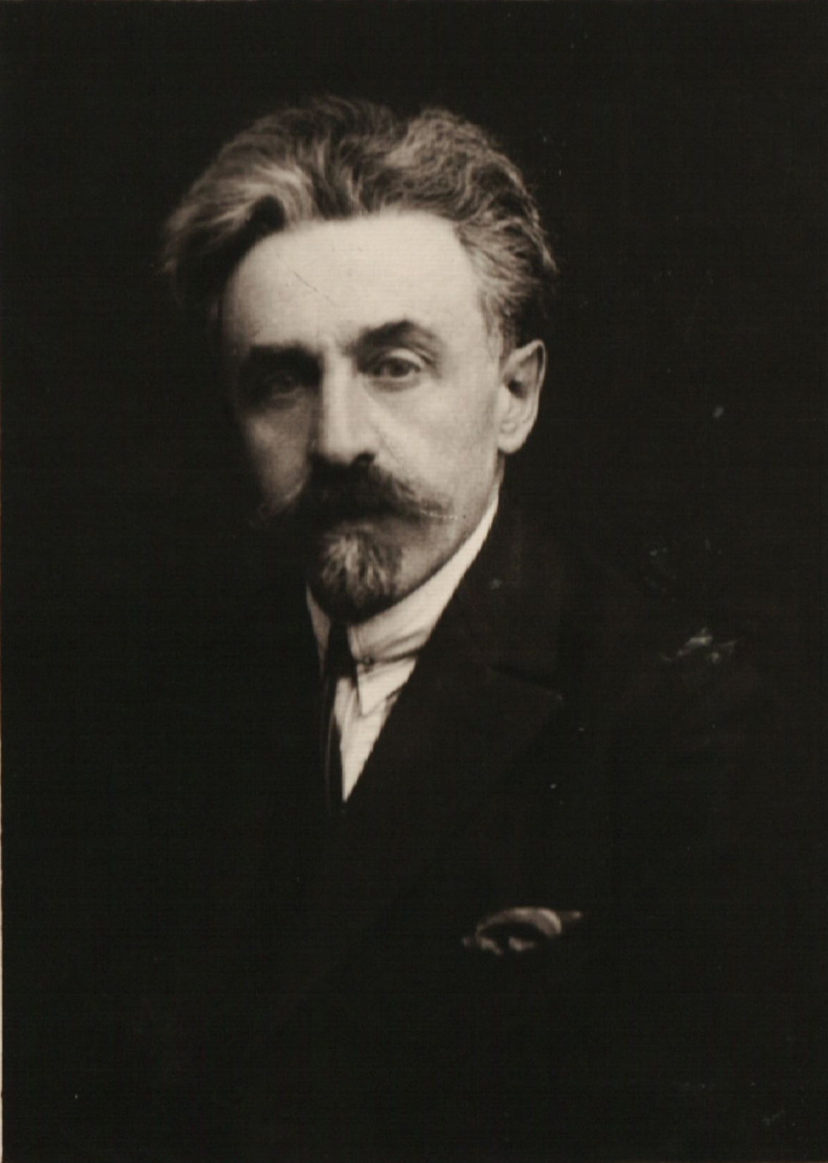 Prof. Ilya Shapshal. A photo album by doctors, paramedics and midwives at the Kyustendil Sanitary region in 1936. It was compiled by Dr. A. Ogoyski. Handed to His Royal Highness Simeon Knyaz Tarnovski.